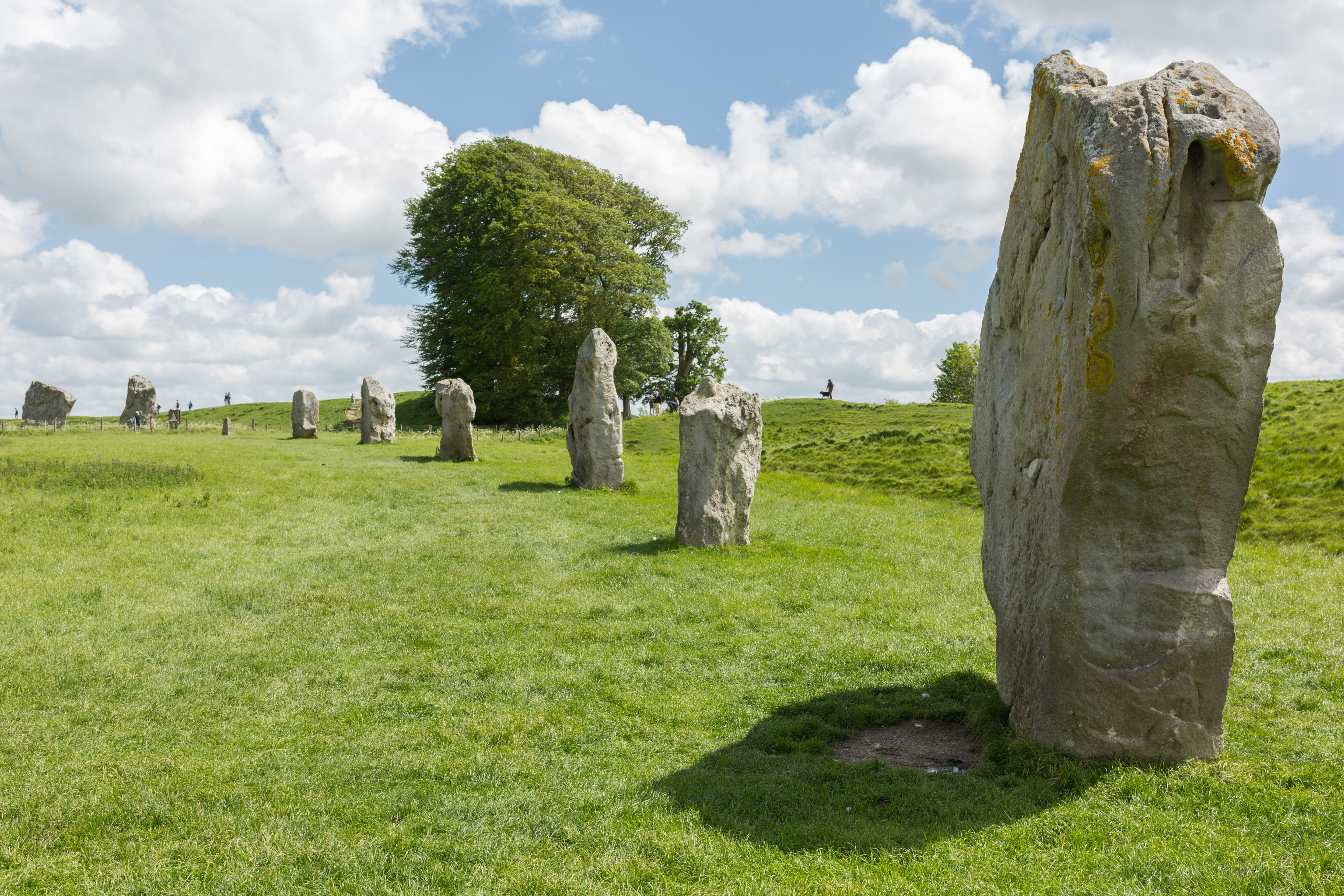 Part of the South Inner Circle of Avebury in Wiltshire, England.